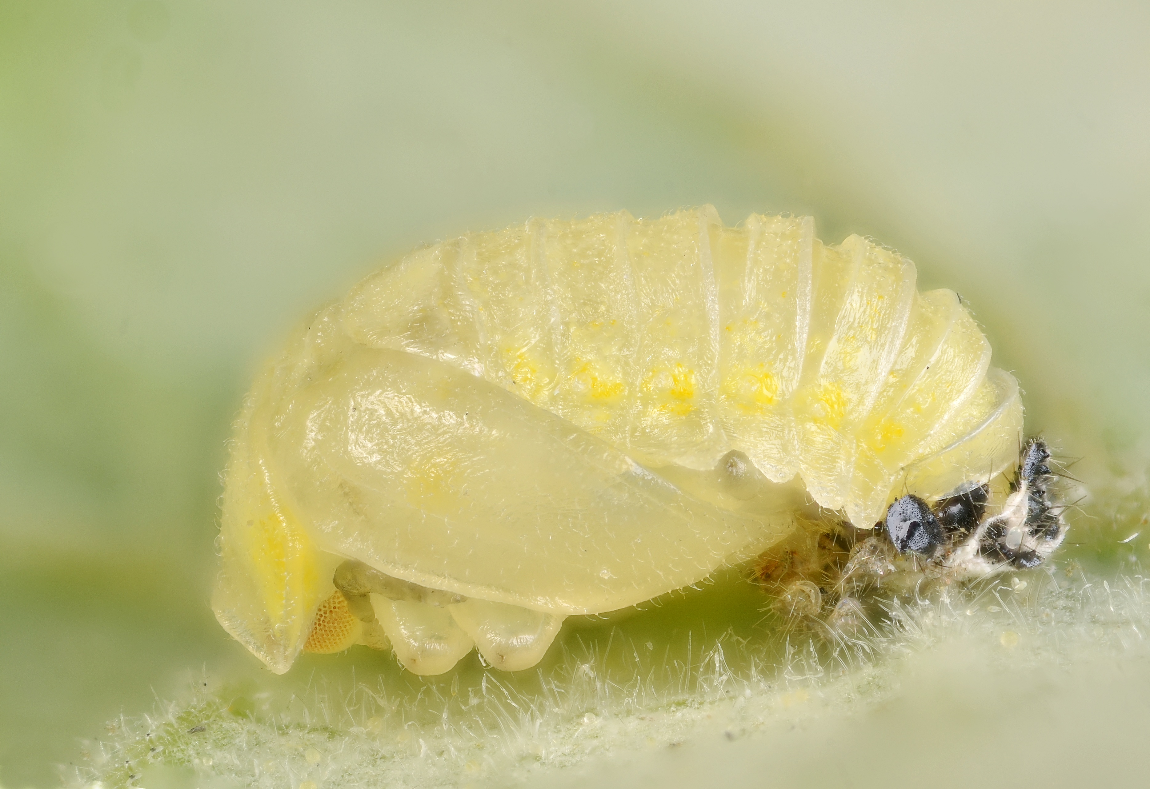 Pupa of the ladybird Vibidia duodecimguttata Focus stack of 24 images. Componon 28mm reversed on extension tubes